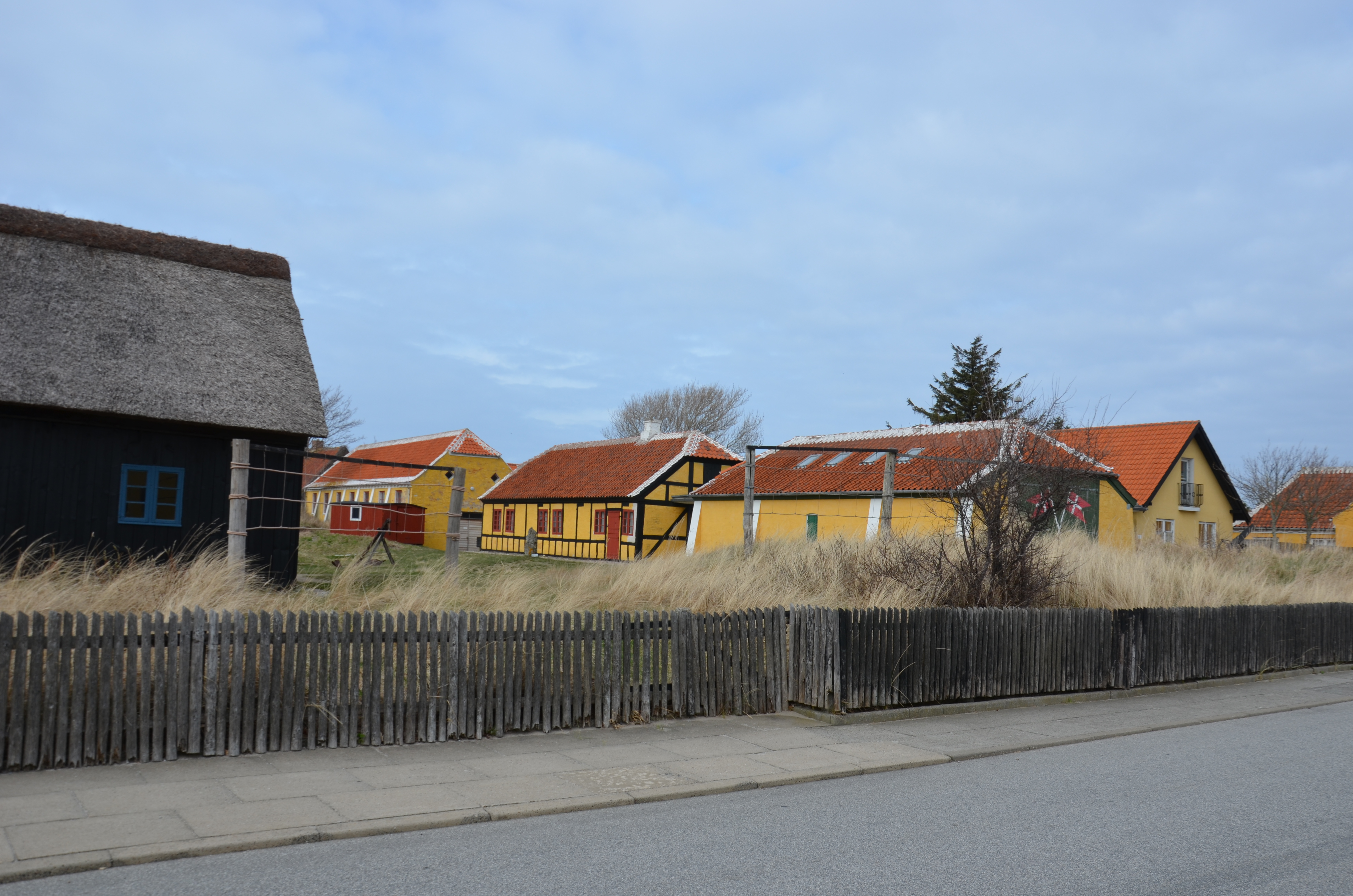 Skagen By- og Egnmuseum, från P.K. Nielsens Vej